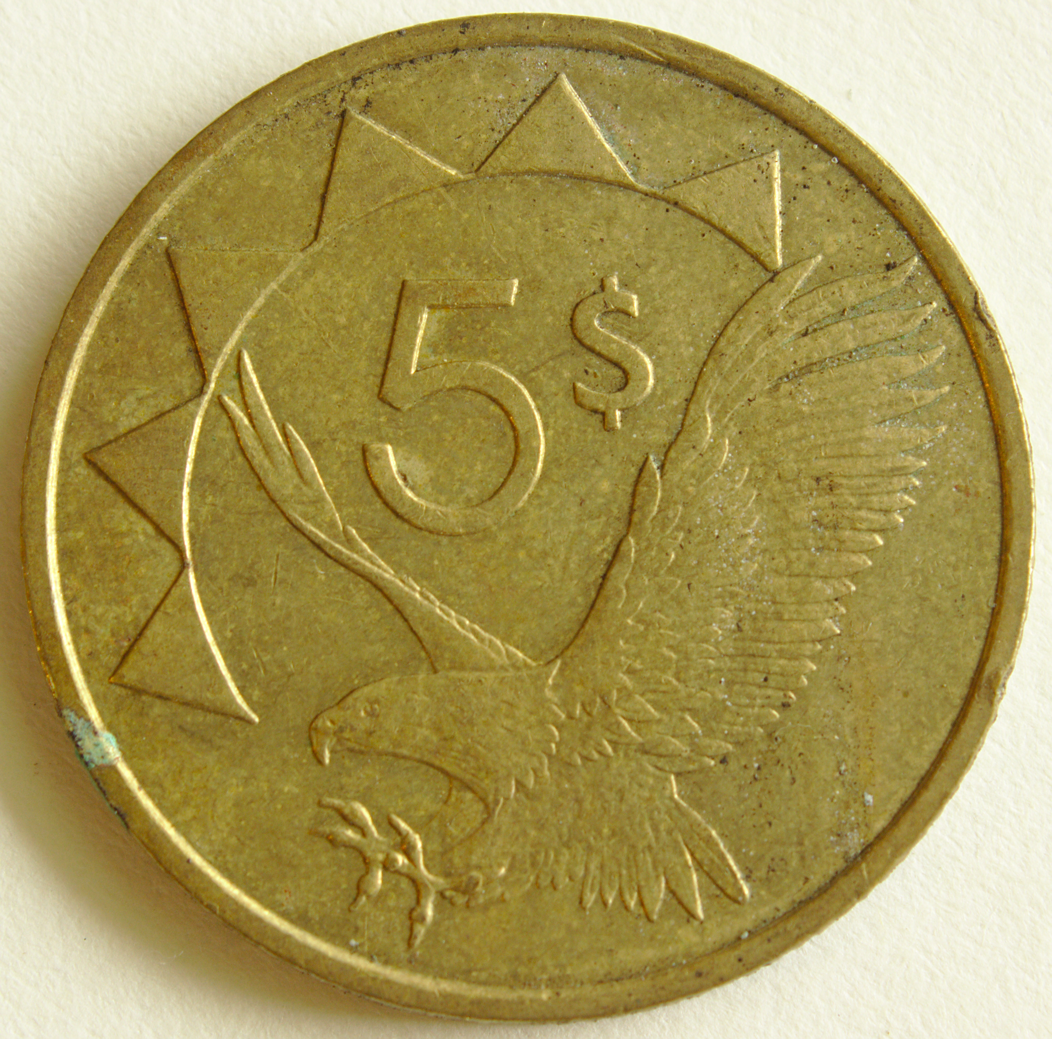 Reverse of 1993 Namibian 5$ coin